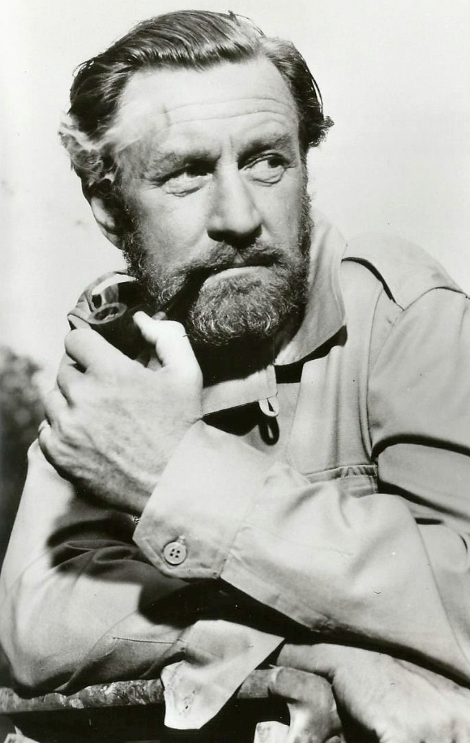 Photo of Ronald Howard from the television program Cowboy in Africa.